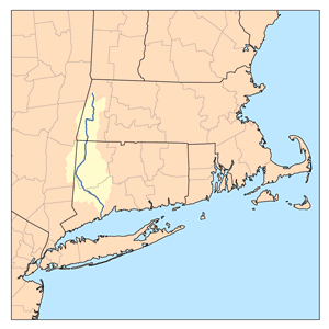 This is a map of the Housatonic river watershed. I, Karl Musser, created it based on USGS data.